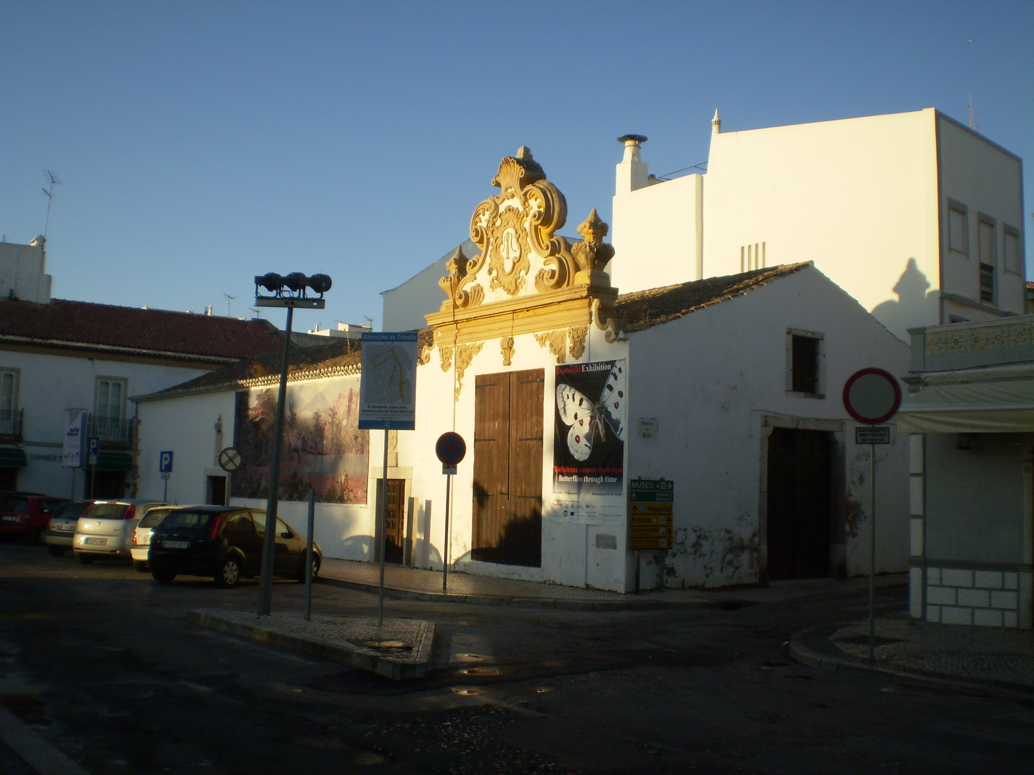 Armazém Regimental de Lagos building, in Lagos, Portugal.